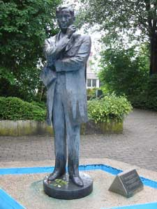 Jose Rizal statue in Wilhelmsfeld, Germany.